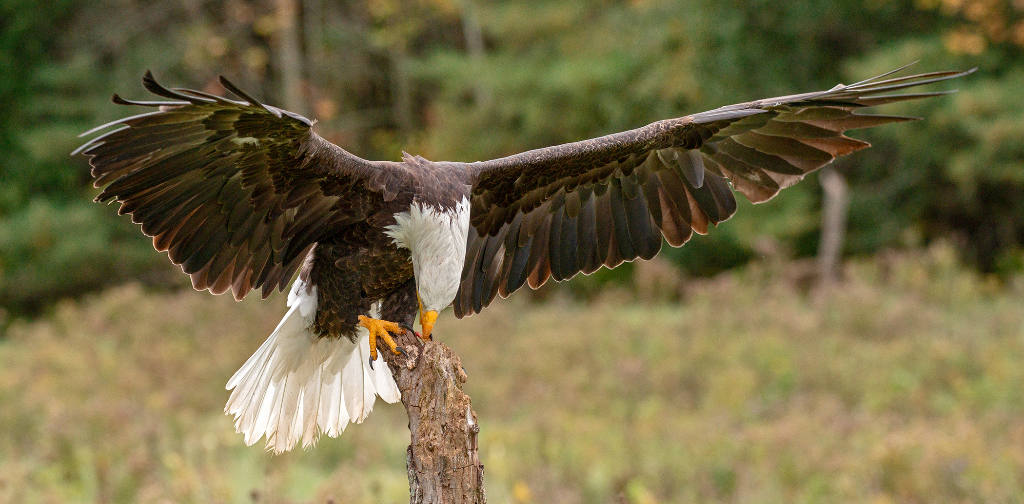 A bald eagle being trained for falconry under license, in Ontario,Canada